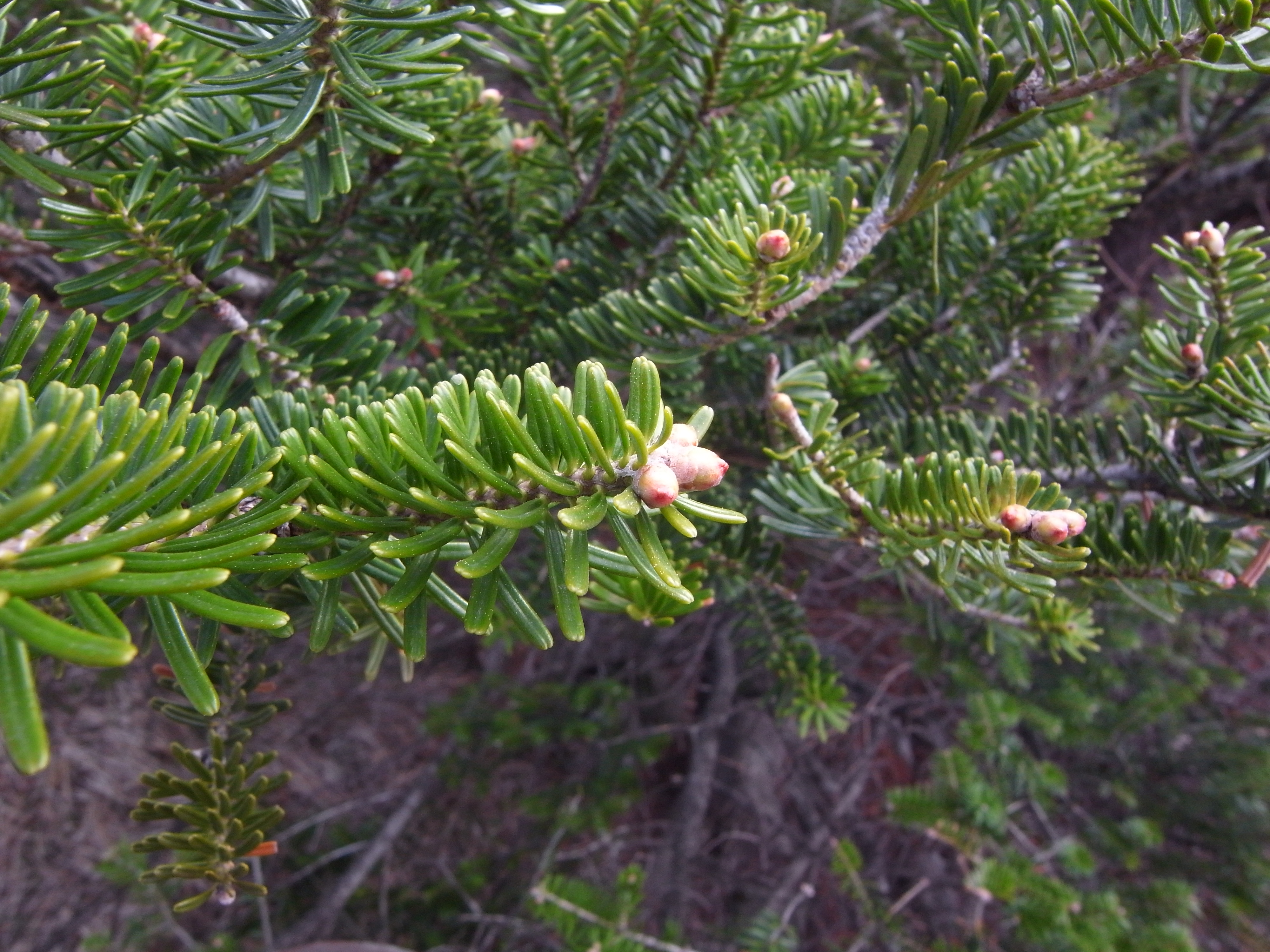 Abies koreana at Jirisan mountain